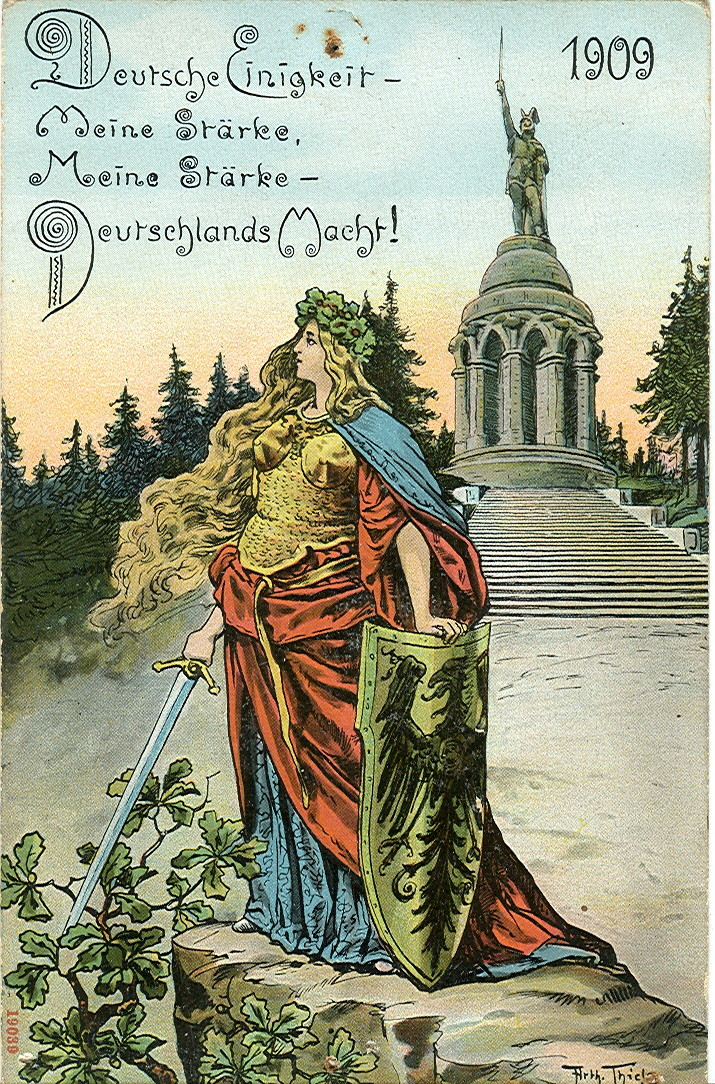 Postcard, dated 1909. Title: "1909 - German unity, my strength - my strength, Germany´s power!"